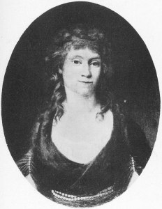 Sophie Hedevig grevinde von Warnstedt, på Frederiksdal